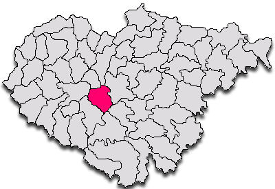 Map Salaj County Romania